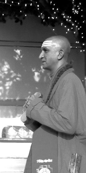 Swami Niranjanananda Saraswati ably combines tradition with modernity as he continues to nurture and spread his guru’s mission from his base at Munger.